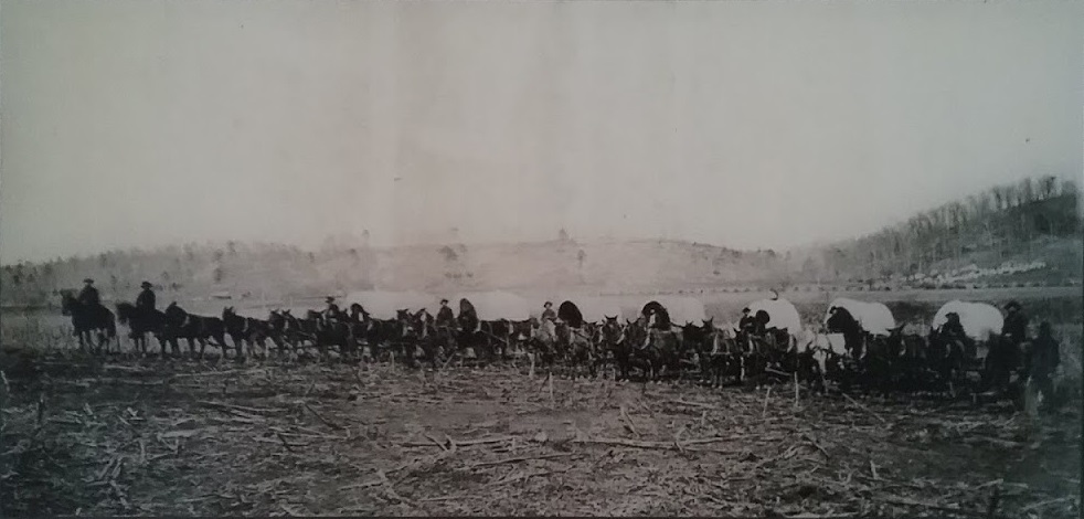 Union troops at the Blue Springs Encampments and Fortifications in Bradley County, Tennessee, circa 1864.